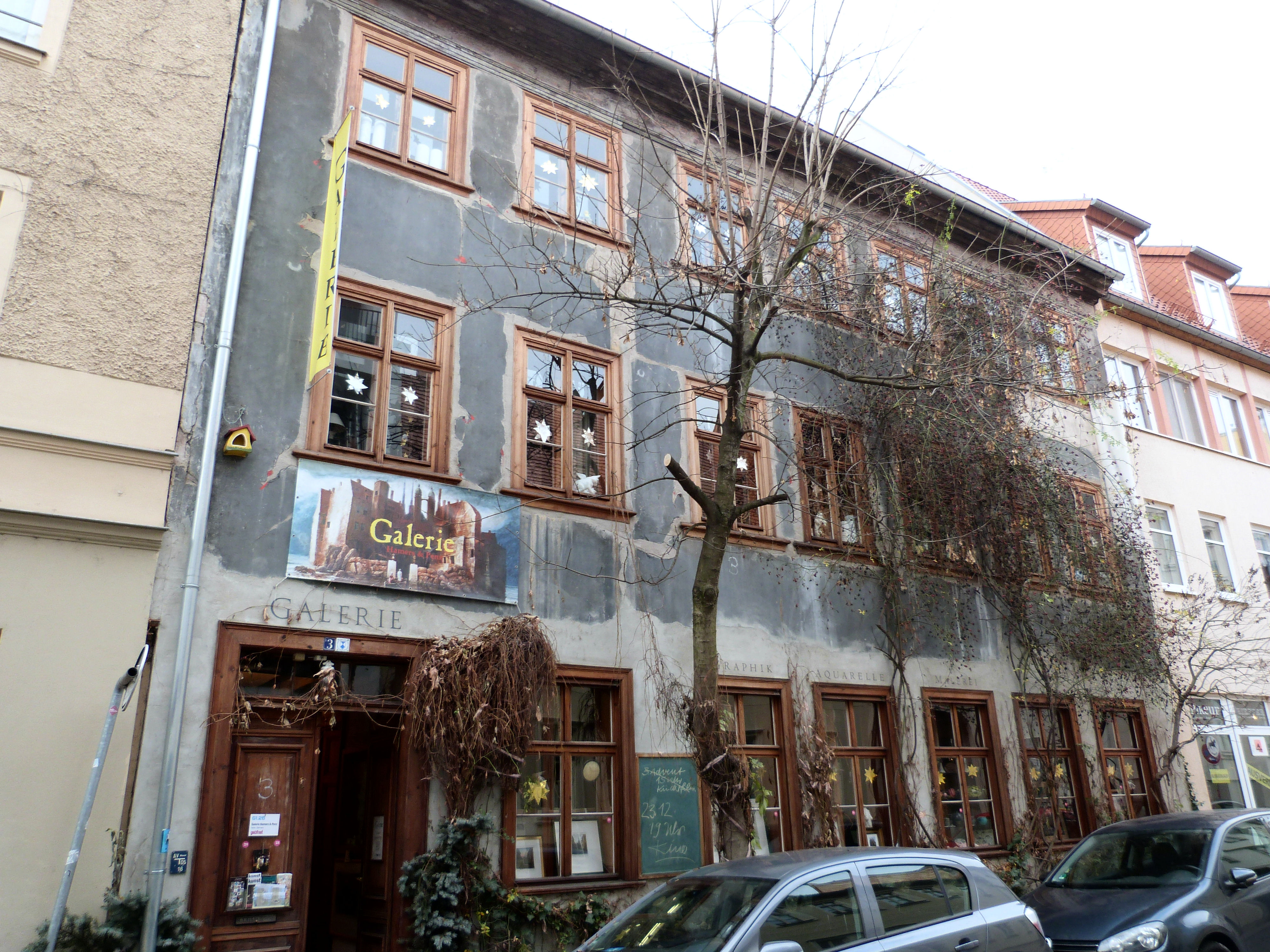 House No. 3, Mittelstrasse in Halle (Saale), Art Gallery Hamers & Penz